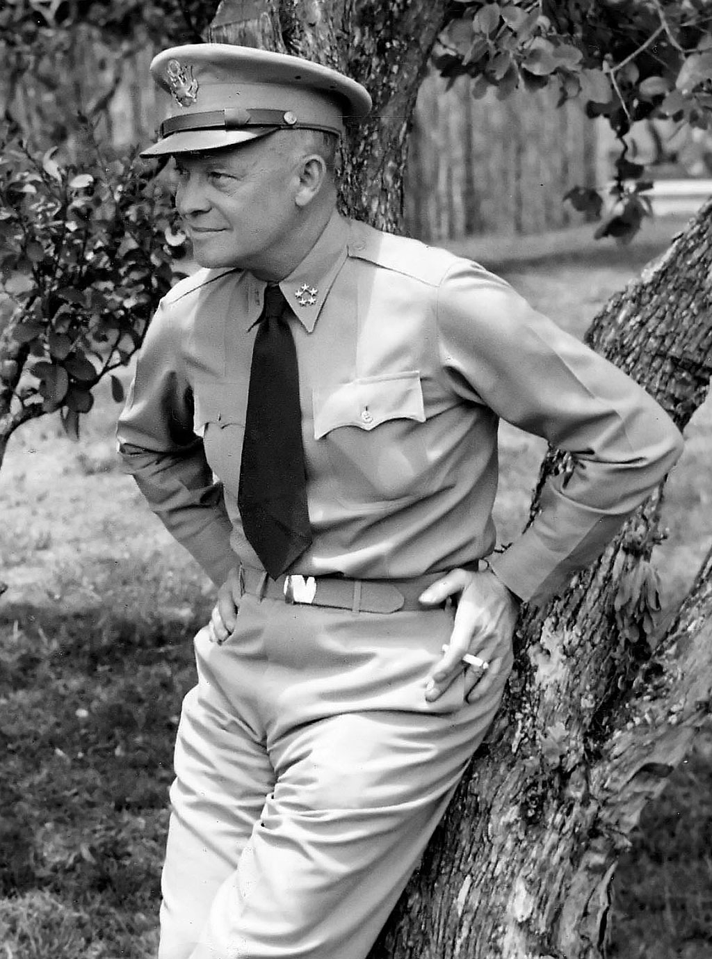 Gen. of the Army Dwight D. Eisenhower (detail). See original for stamp of origin.